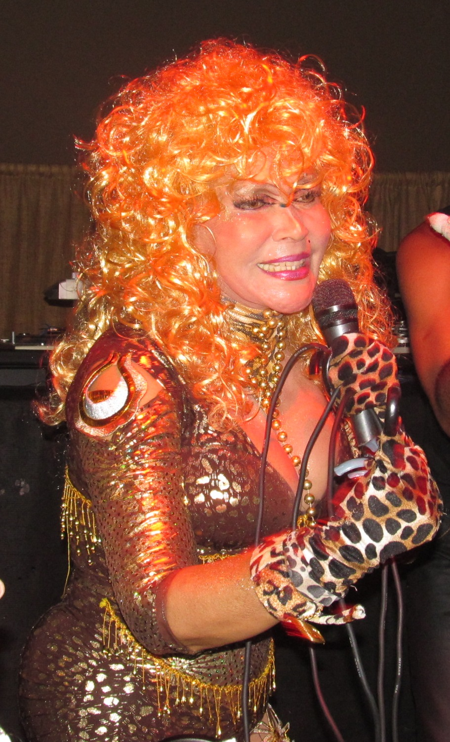 I took the photo interpreter in full show in 'Bahía Rastabar' (Maracaibo, Venezuela).